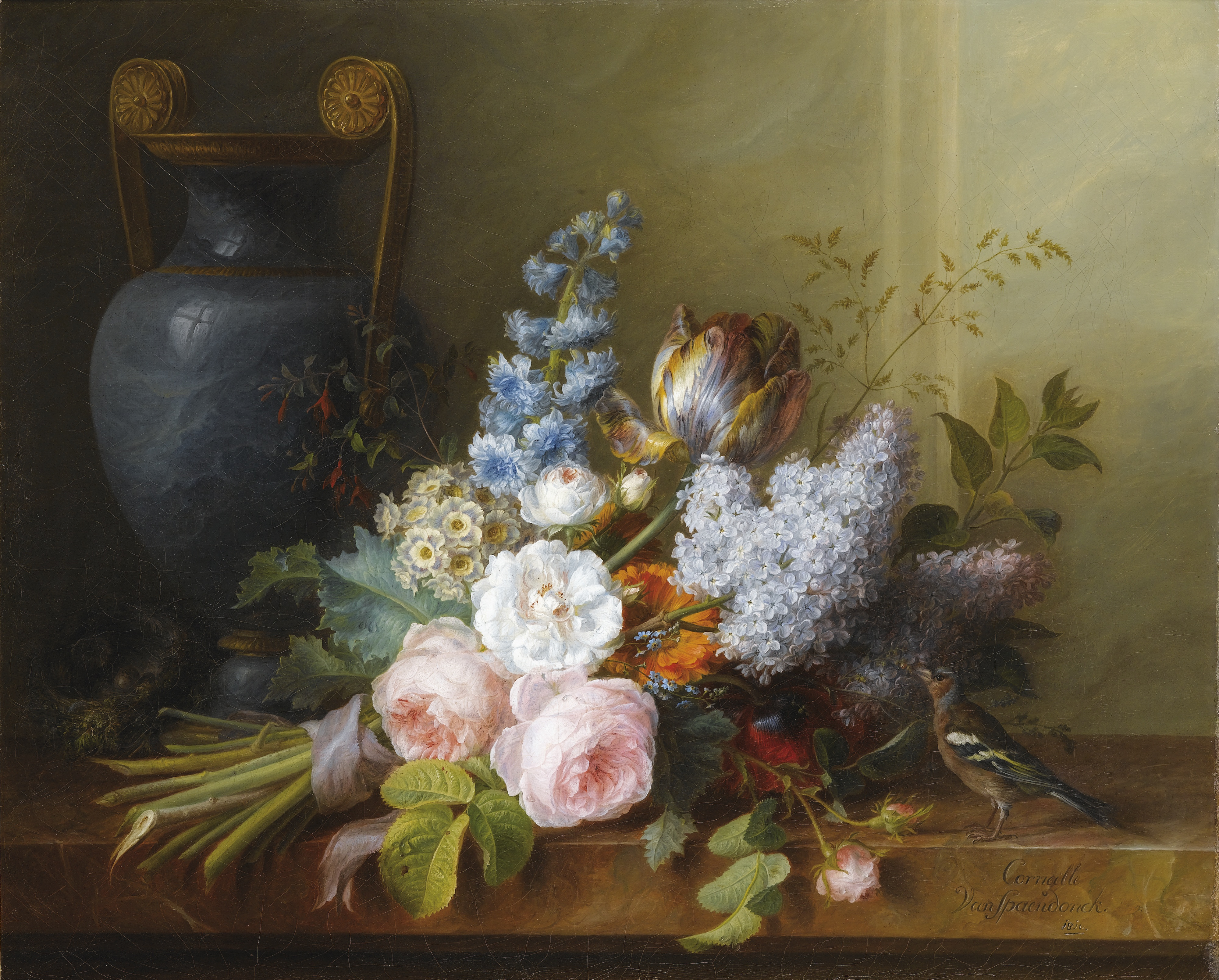 Flower bunch with a bird nest